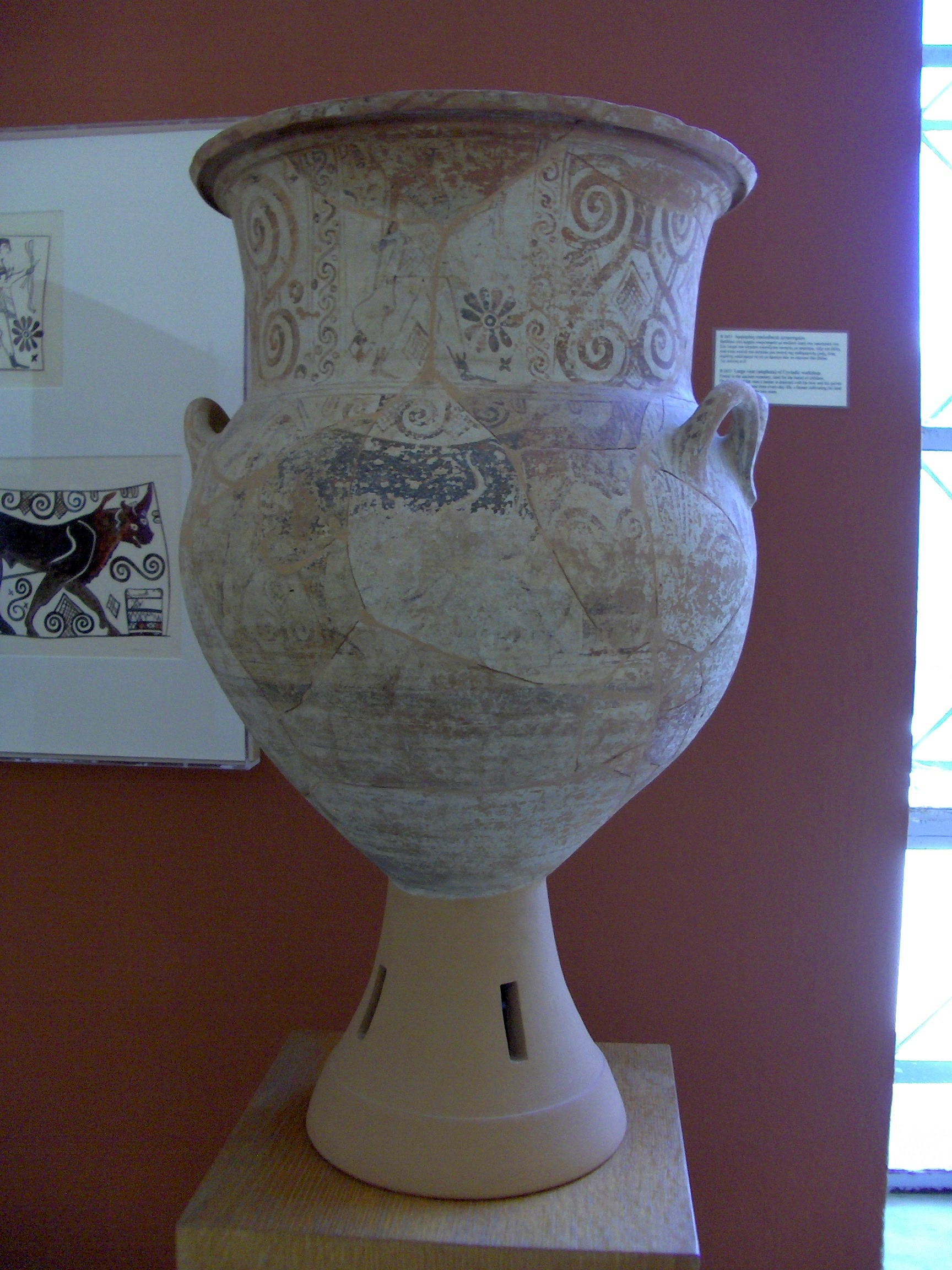 Large vase (amphora) from a Cycladic workshop. Exhibit Β2653 at the Archaeological Museum of Paros.